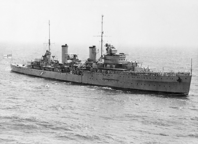 AWM Caption: Aerial starboard bow view of the cruiser HMAS Sydney (II) (ex HMS Phaeton). Note the spar projecting forward of the bridge and single 4-inch AA guns amidships, which distinguished the Sydney from her two sisters. Her Seagull Amphibian is embarked.